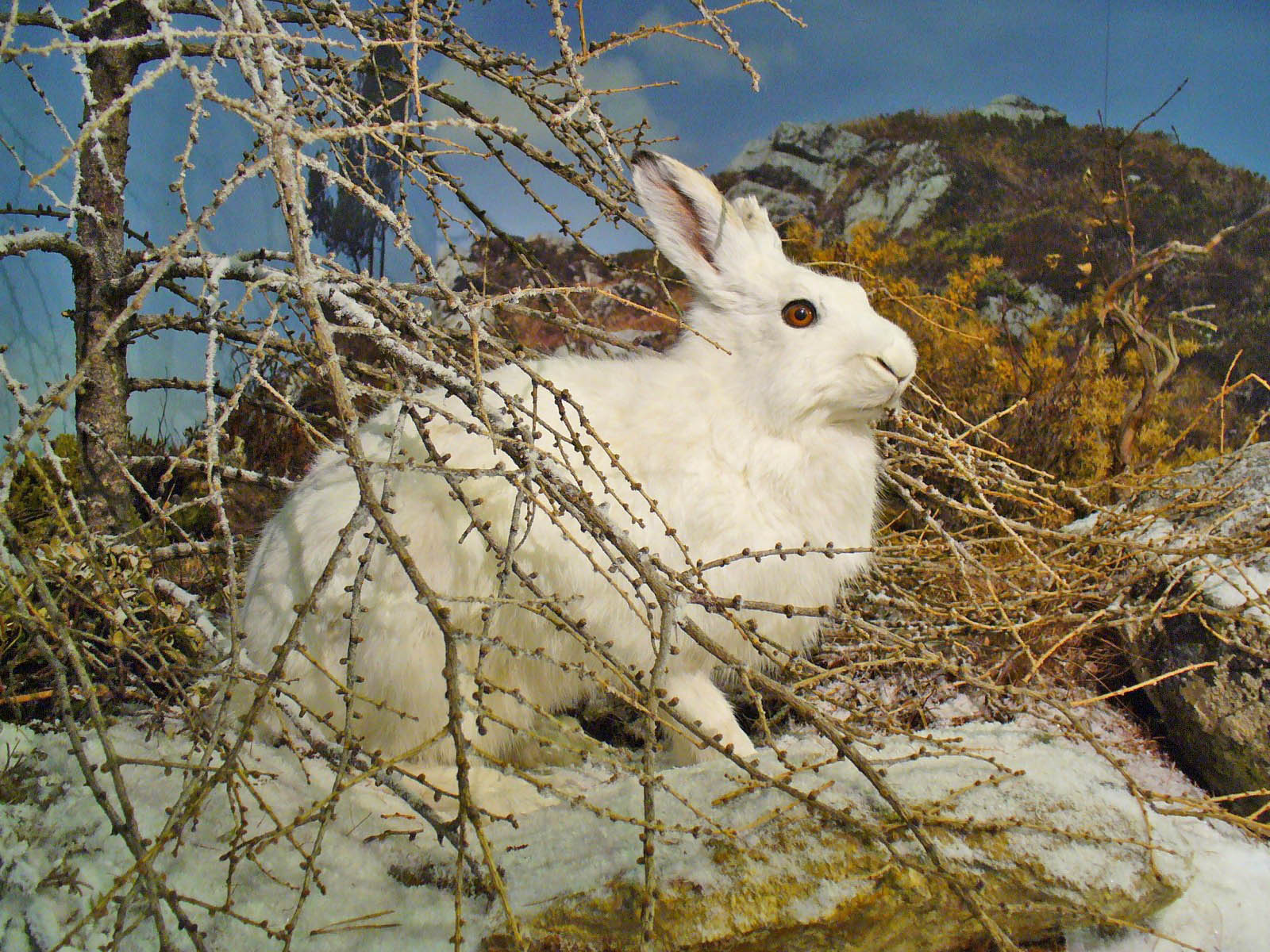 Lepus timidus, Leporidae, Mountain Hare. National park center, Zernez, Switzerland